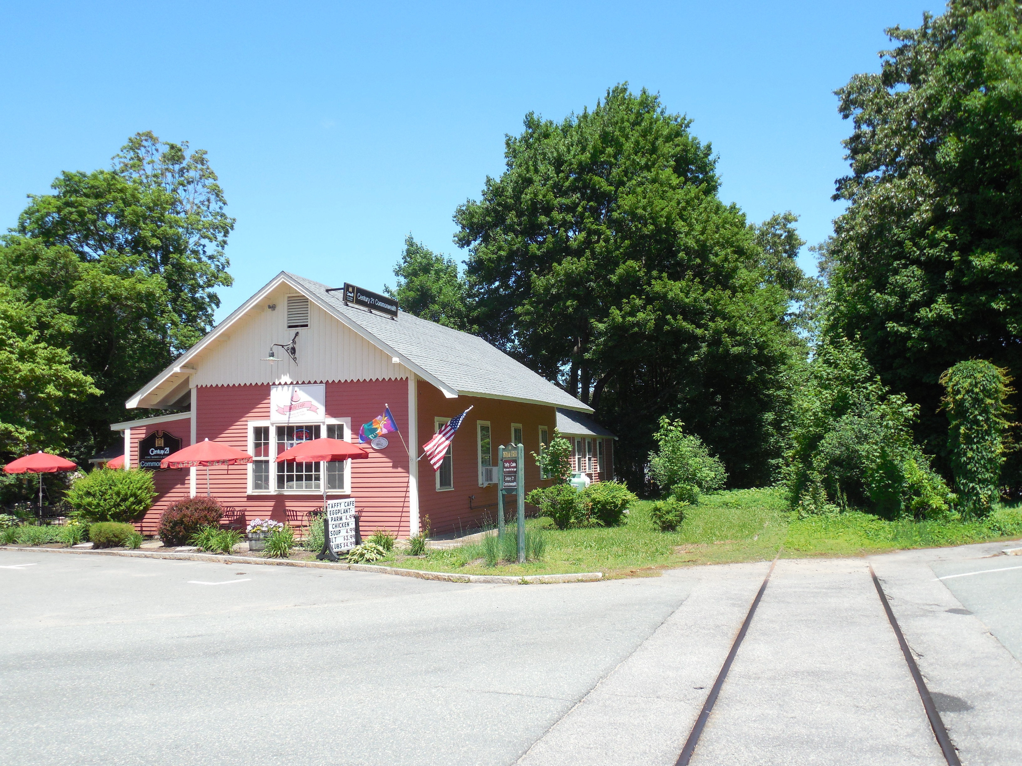 Taffy Cafe in Dover Massachusetts - this is the former combination depot, built around 1861